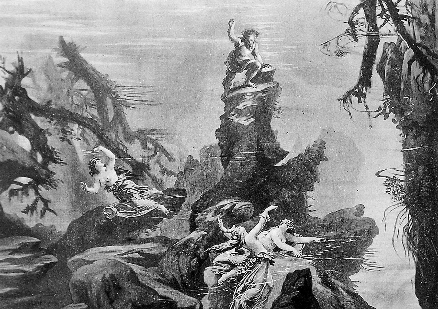 This is a monochrome photograph taken of Hoffman's 14 set designs (number 1) for Wagner's Der Ring des Nibelungen opera in 1876. Hoffman authorized Angerer to publish and sell copies of the photographs.[1] The uploader, JosefLehmkuhl, has failed to specify from where he scanned this image.